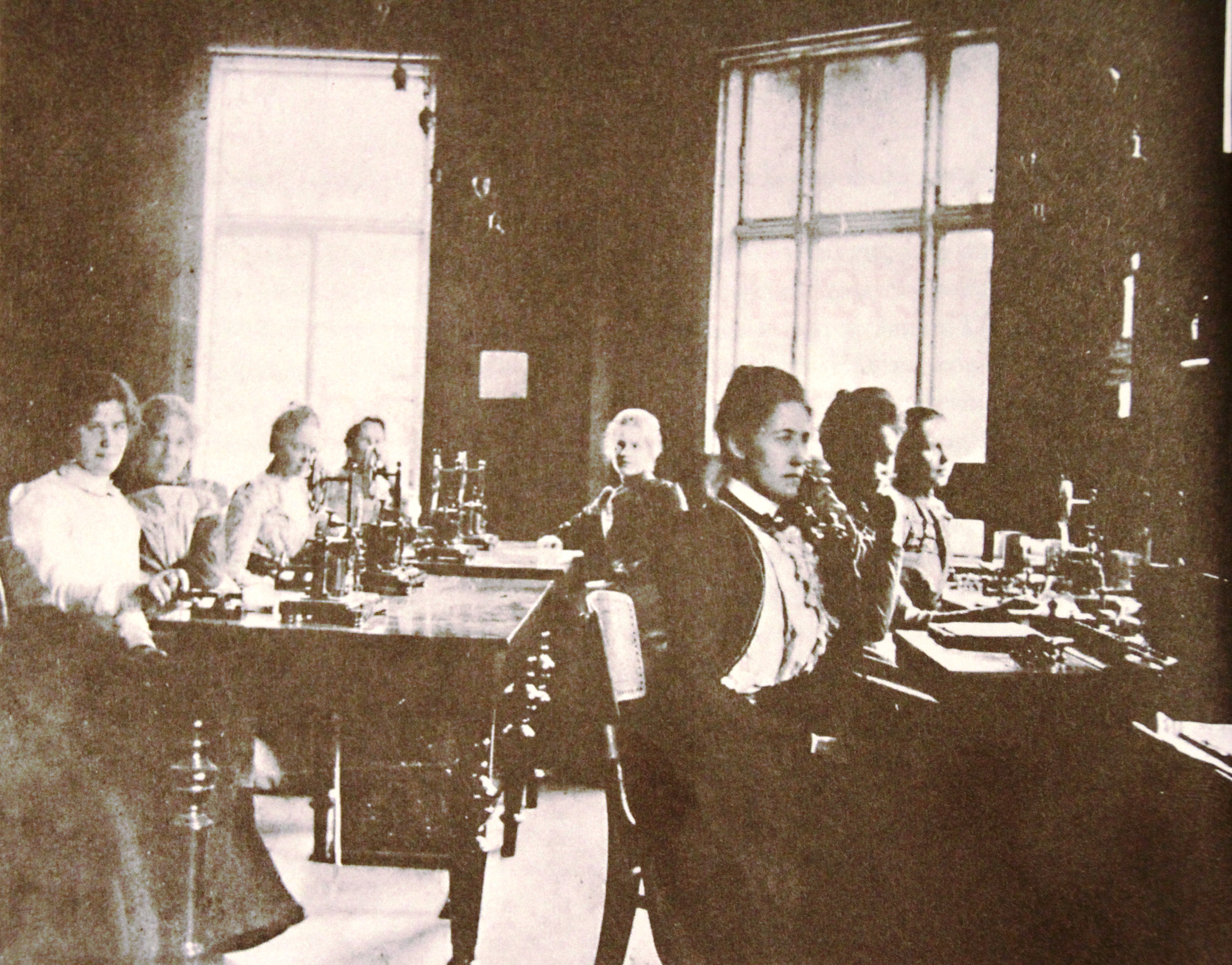 Telegraph station interior, hammerfest, Norway (1870s)